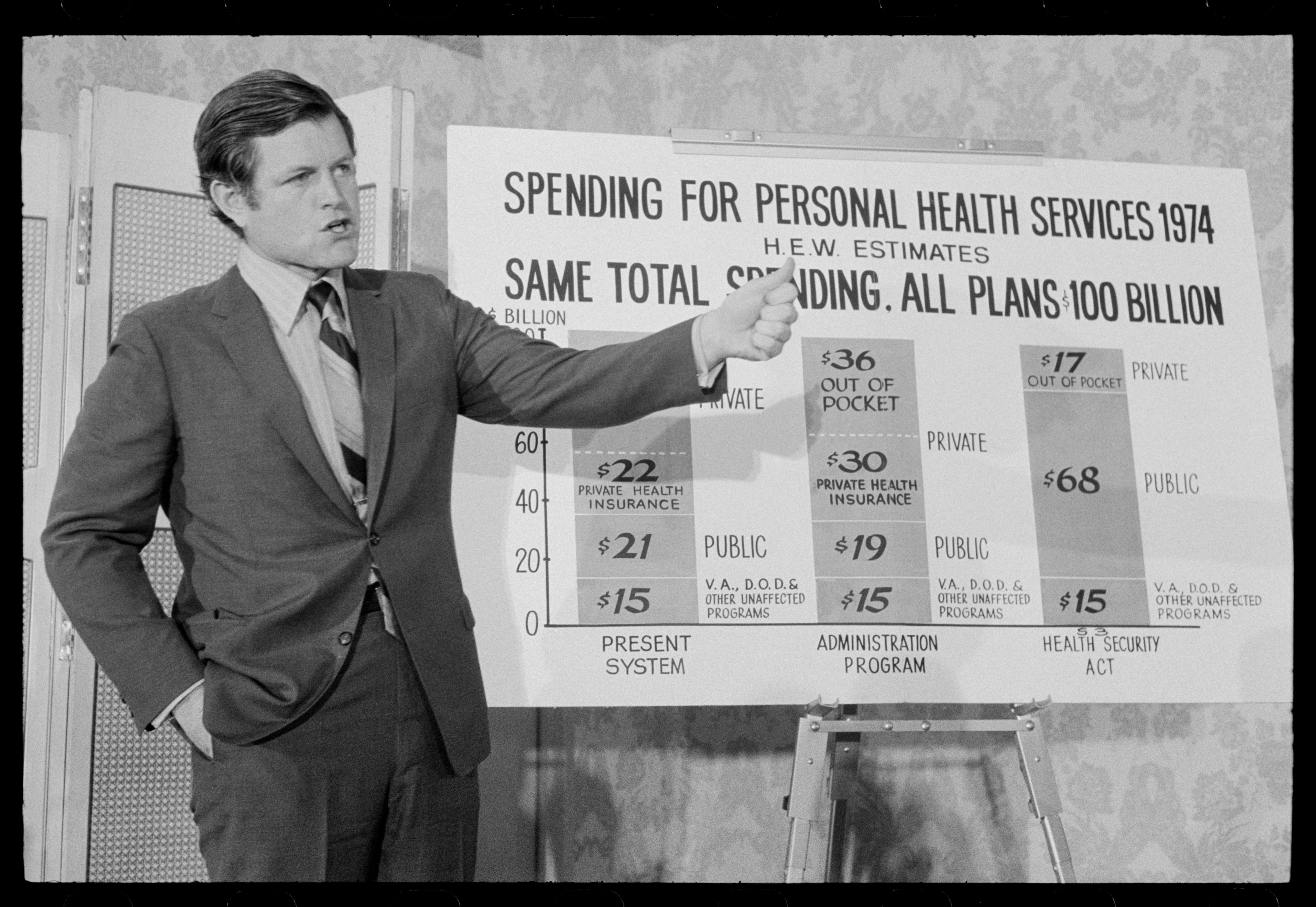 Senator Ted Kennedy speaks to American Federation of State, County and Municipal Employees (AFSCME) about a health bill